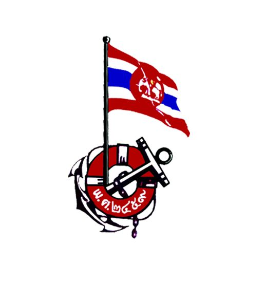 Logo of rtni